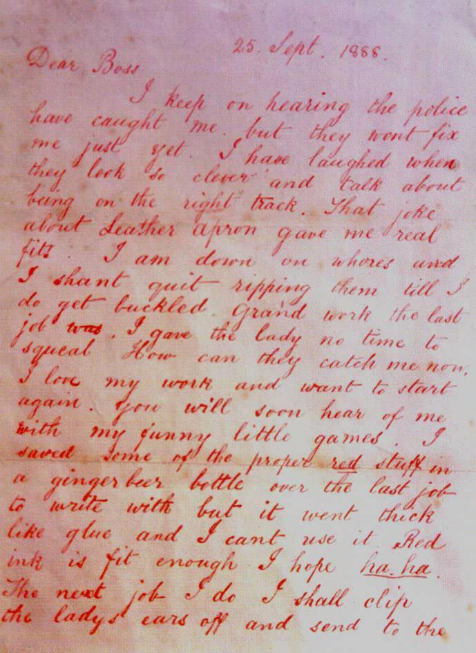 Jack the Ripper's "Dear Boss" letter (part 1).